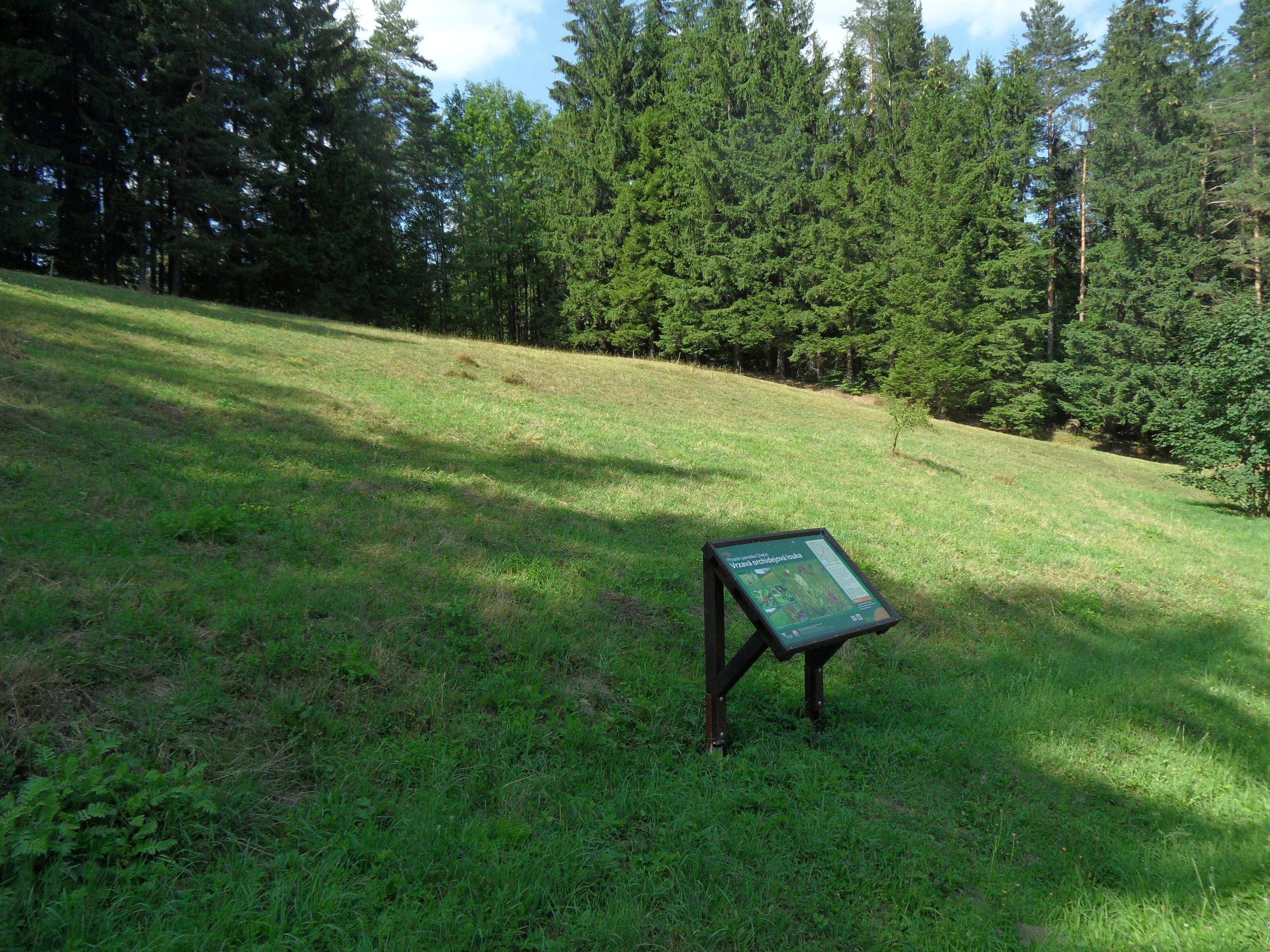 Chebzí_(natural_monument). 1. Overview of Protected Meadow with Information. Jeseník District, the Czech Republic.